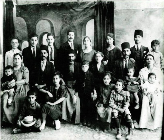 Moshe Dervish Tzuri 1923